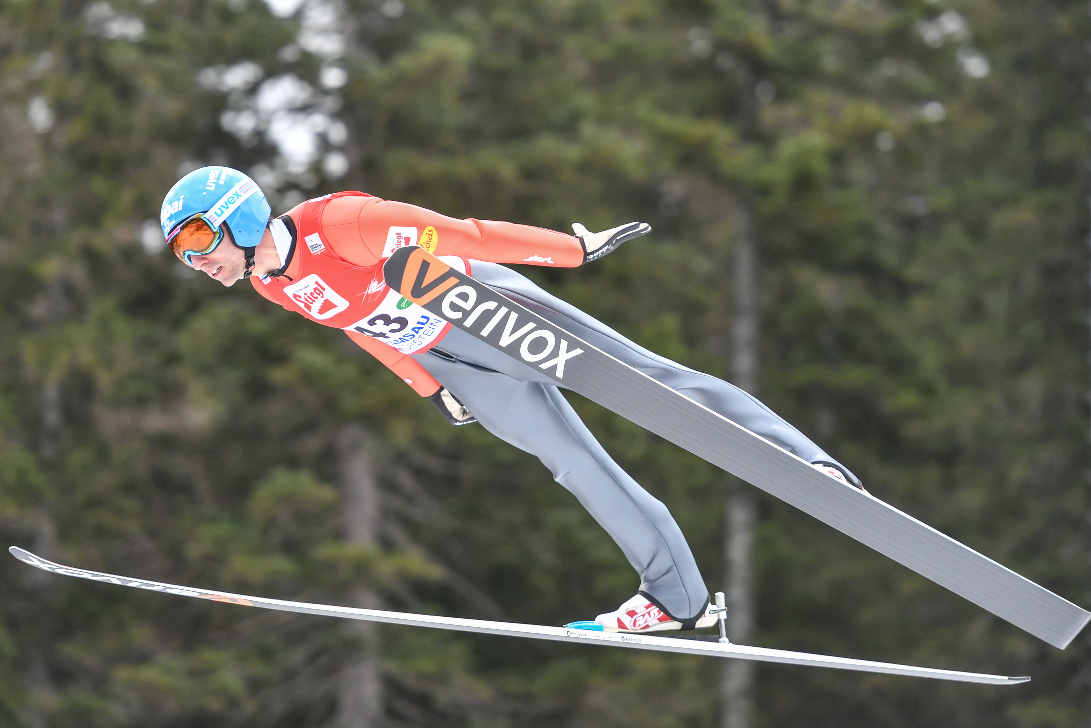 FIS World Cup Nordic Combined, Ramsau/Austria, 2016-12-16 to 2016-12-18.